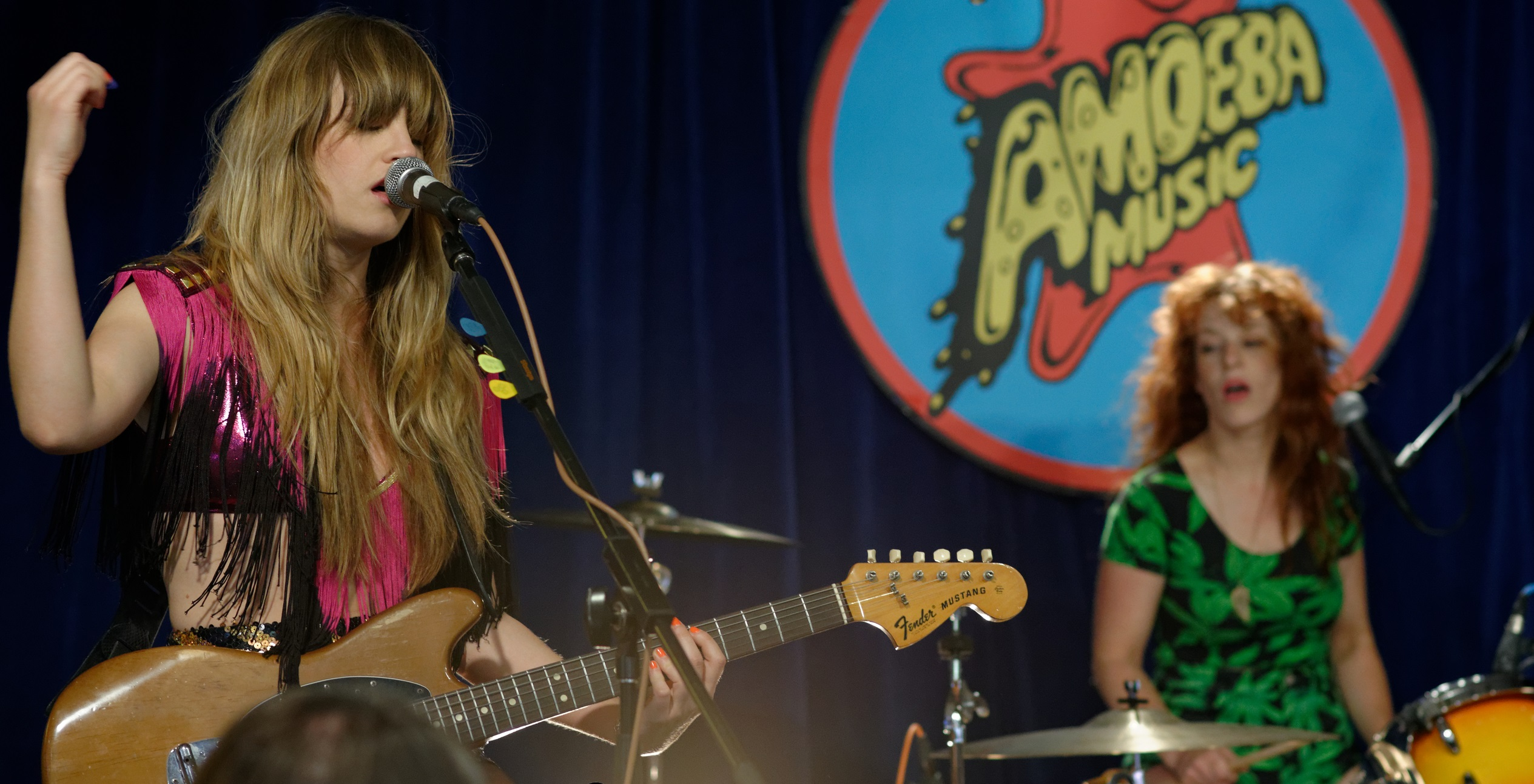 Deap Vally performing live in-store at Amoeba Music Hollywood in Los Angeles California on Tuesday May 13th, 2014.